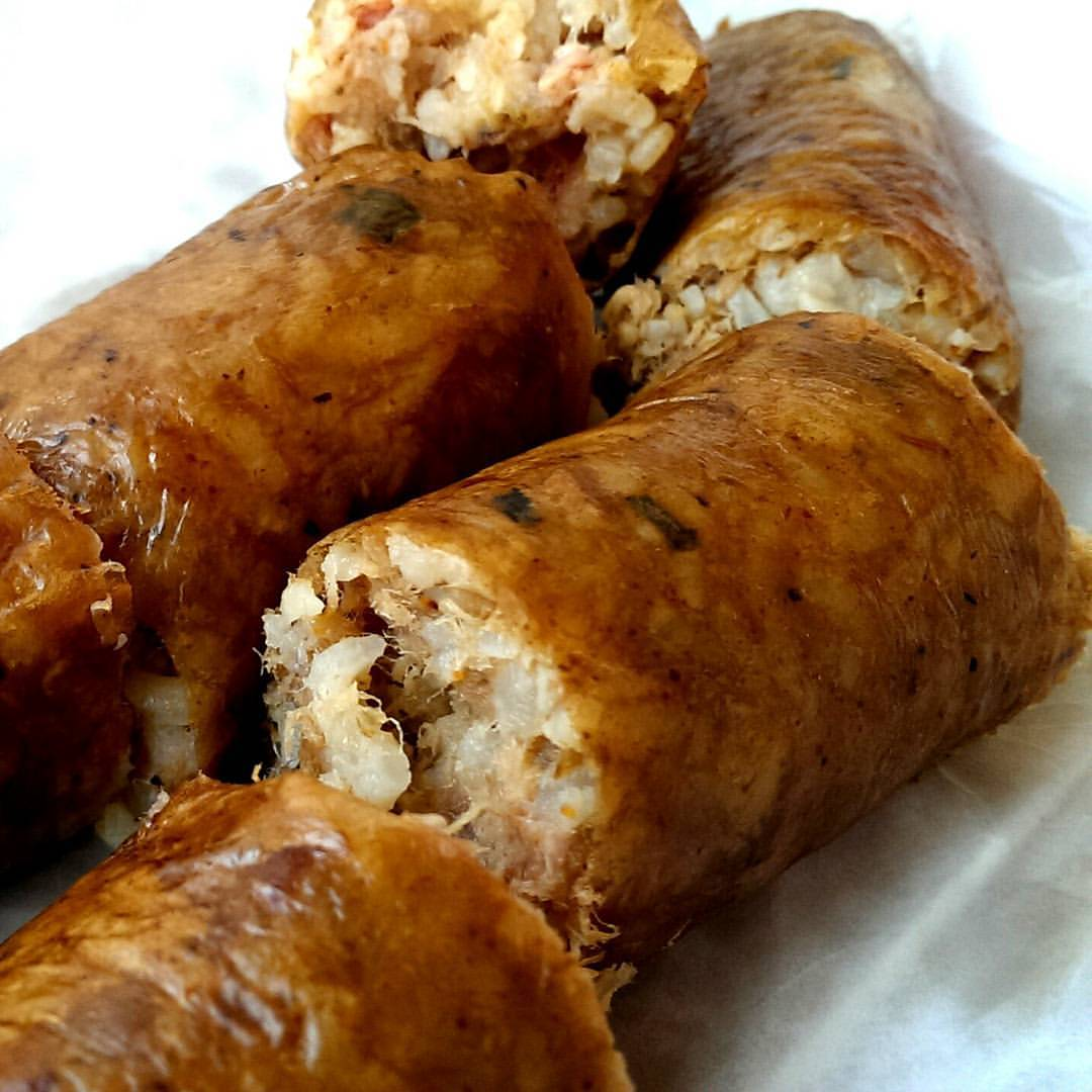 Rice & meat in sausage; that's boudin.